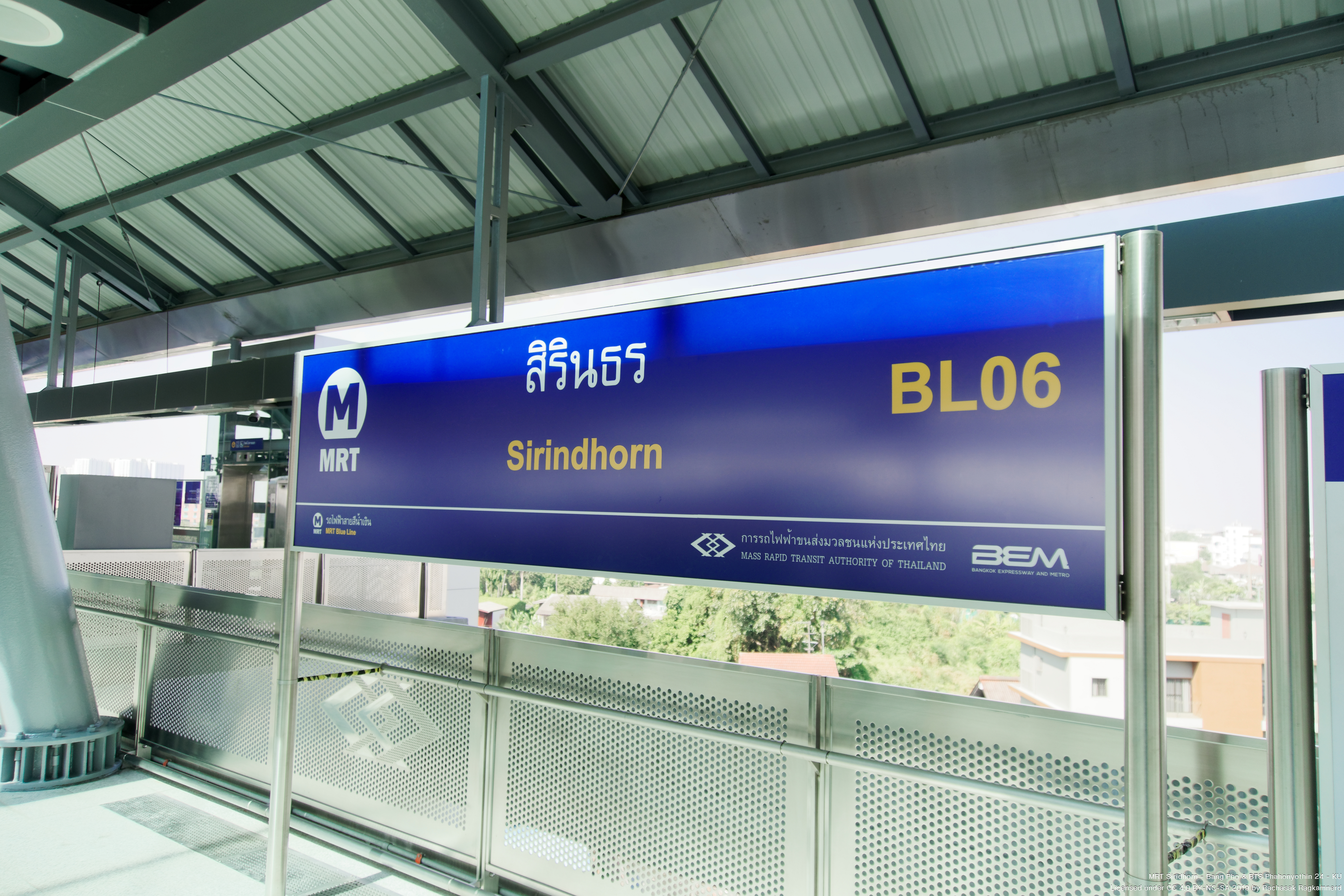 MRT Sirindhorn - Traditional station sign